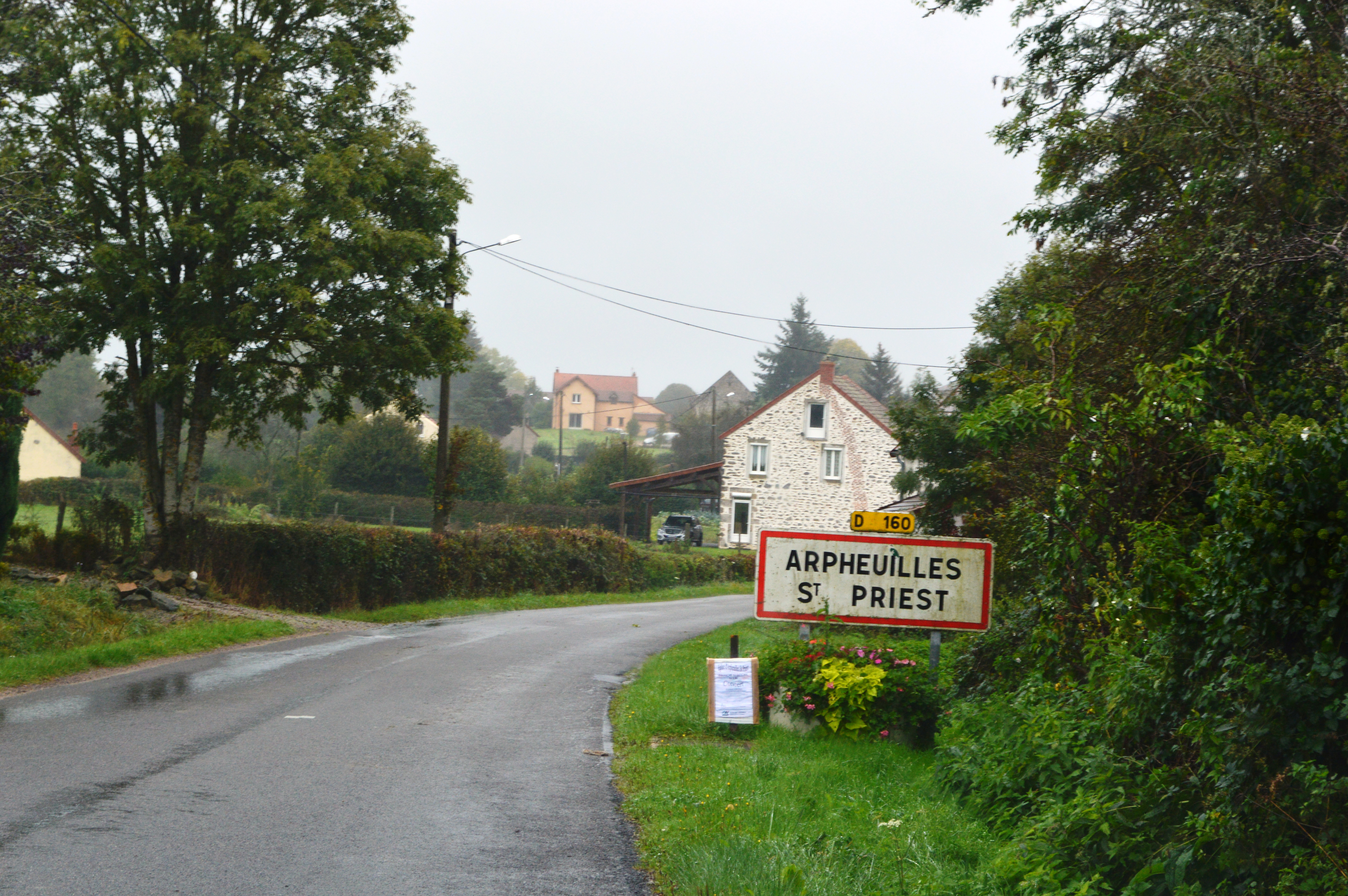 The entry to Arpheuilles-Saint-Priest